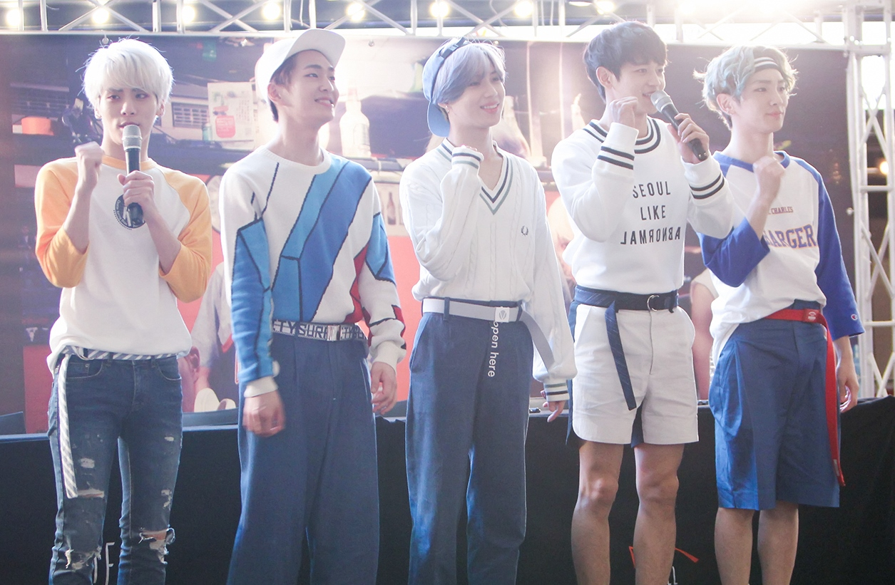 SHINee at a fansign at IFC Mall in Yeouido on May 29, 2015.